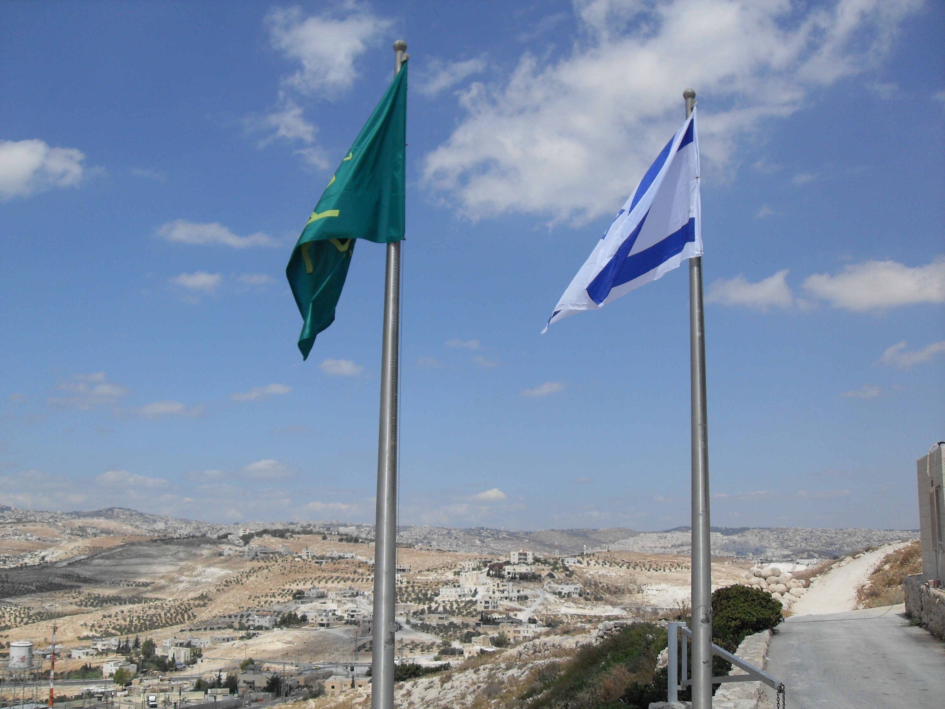 Israel - Flags on the Herodion - the green flag at the left is the flag of the "Israel Nature and Parks Authority" (INPA) with a Nubian Ibex and a tree